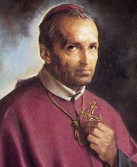 Congregation of the Most Holy Redeemer painting of Alphonsus_Liguori